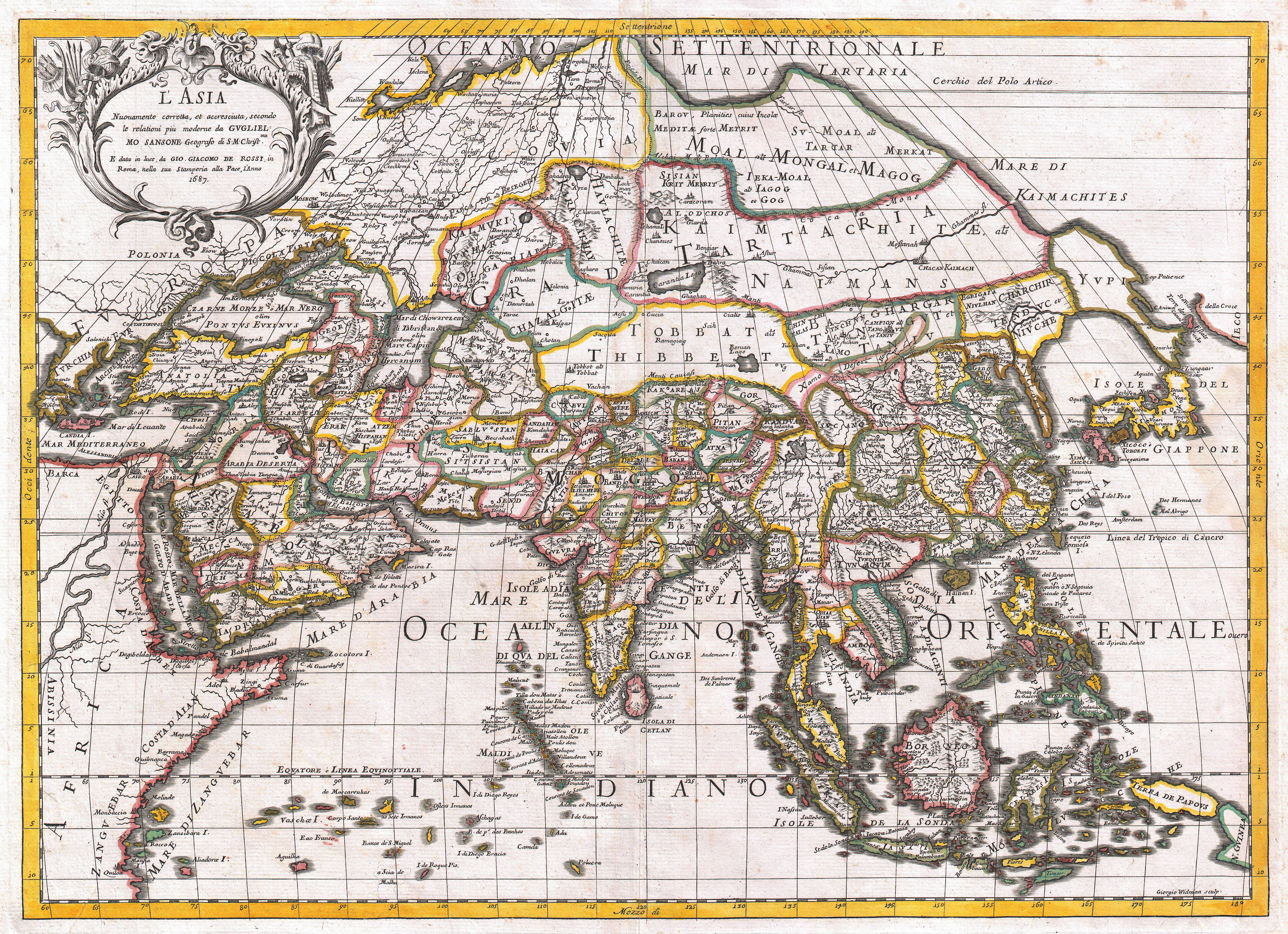 A spectacular 1687 map of Asia by the important Italian cartographer Giovanni Giacomo De Rossi. Depicts the entire continent as well as parts of Europe, Africa, and the East Indies. In drawing this map Rossi drew heavily upon Nicholas Sanson’s map of Asia in ancient times. In East Asia the cartography is still fairly speculative. Hokkaido is shown attached to the mainland in a vast peninsula named Yvpi . Separated from this landmass by the narrow Strait of St. Vries is a mysterious landmass called Ieco , a name which itself is commonly associated with Hokkaido. West of Japan, Korea appears as a narrow peninsula after the Mercator-Honduis example. Further inland, in western China, Chiamay Lake is depicted. This mythical body of water was postulated by Ortelius as source for the great rivers of Southeast Asia. In a marked departure from Sanson’s map, Rossi corrects the orientation of the Caspian Sea to the proper north-south axis. In the East Indies he separates New Guinea into separate islands, “Terra de Papous” and “N. Guinea”. In the far north the Mongol empire is labeled Magog, referencing Marco Polo’s association of Mongolia with the Biblical land of “Magog.” An attractive decorative title cartouche referencing the military prowess of the Saracens and the Mongols adorns the upper left quadrant. Prepared in 1687 by Rossi for issue in Giacomo Cantelli da Vignola’s important Mercurio Geografico… .